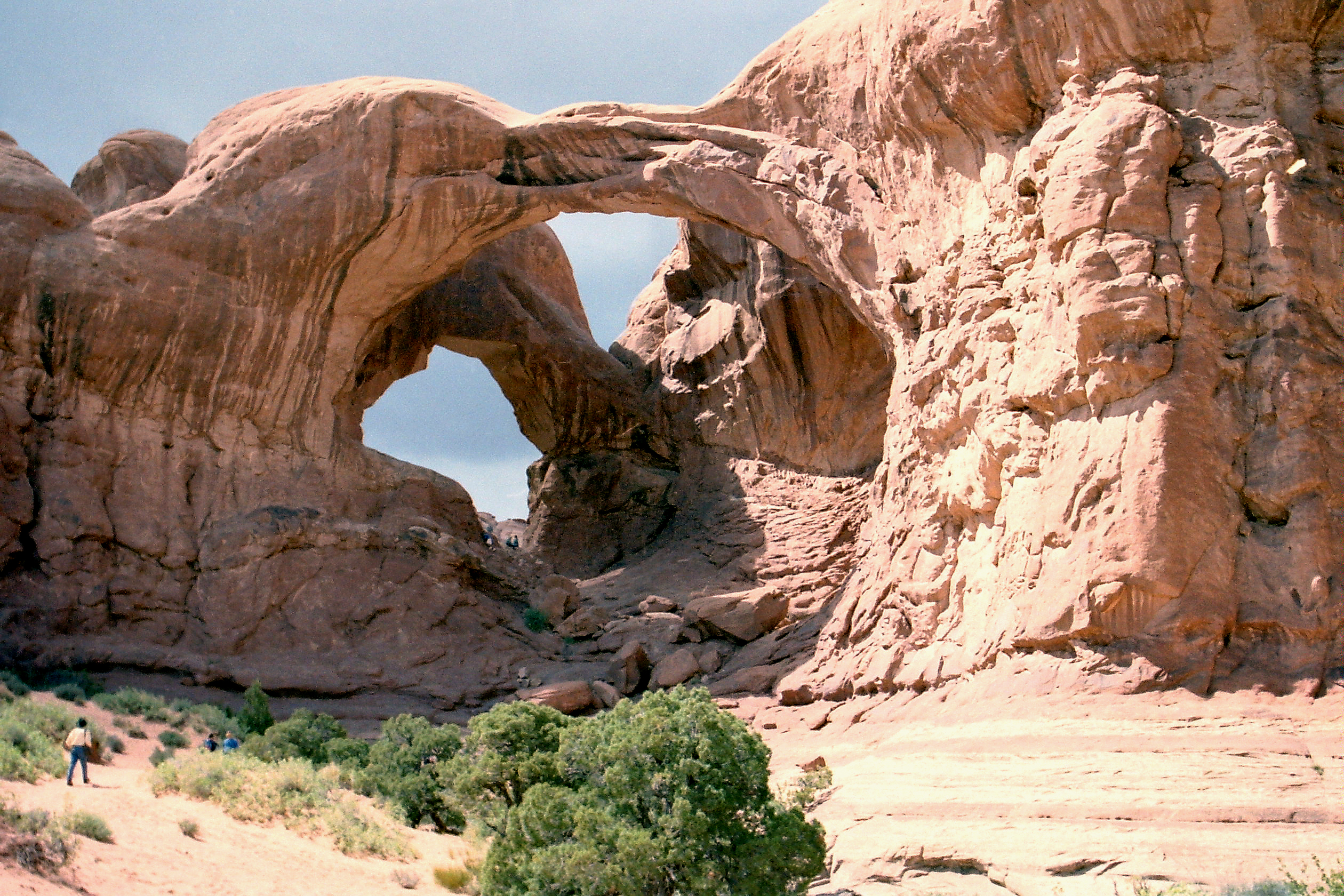 The Arches National Park is located near Moab in Utah, USA. View to Double Arch.